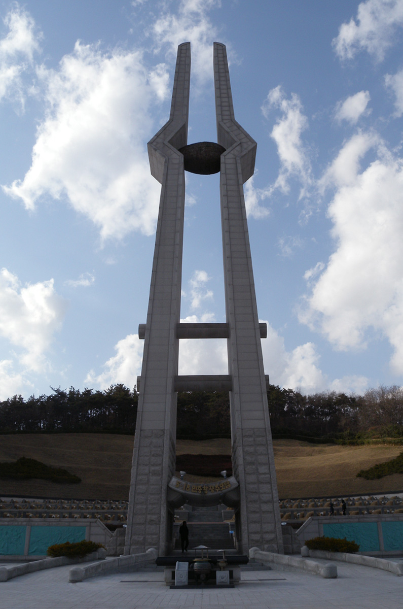 Gwangju Democratization Movement Cemetary Tower